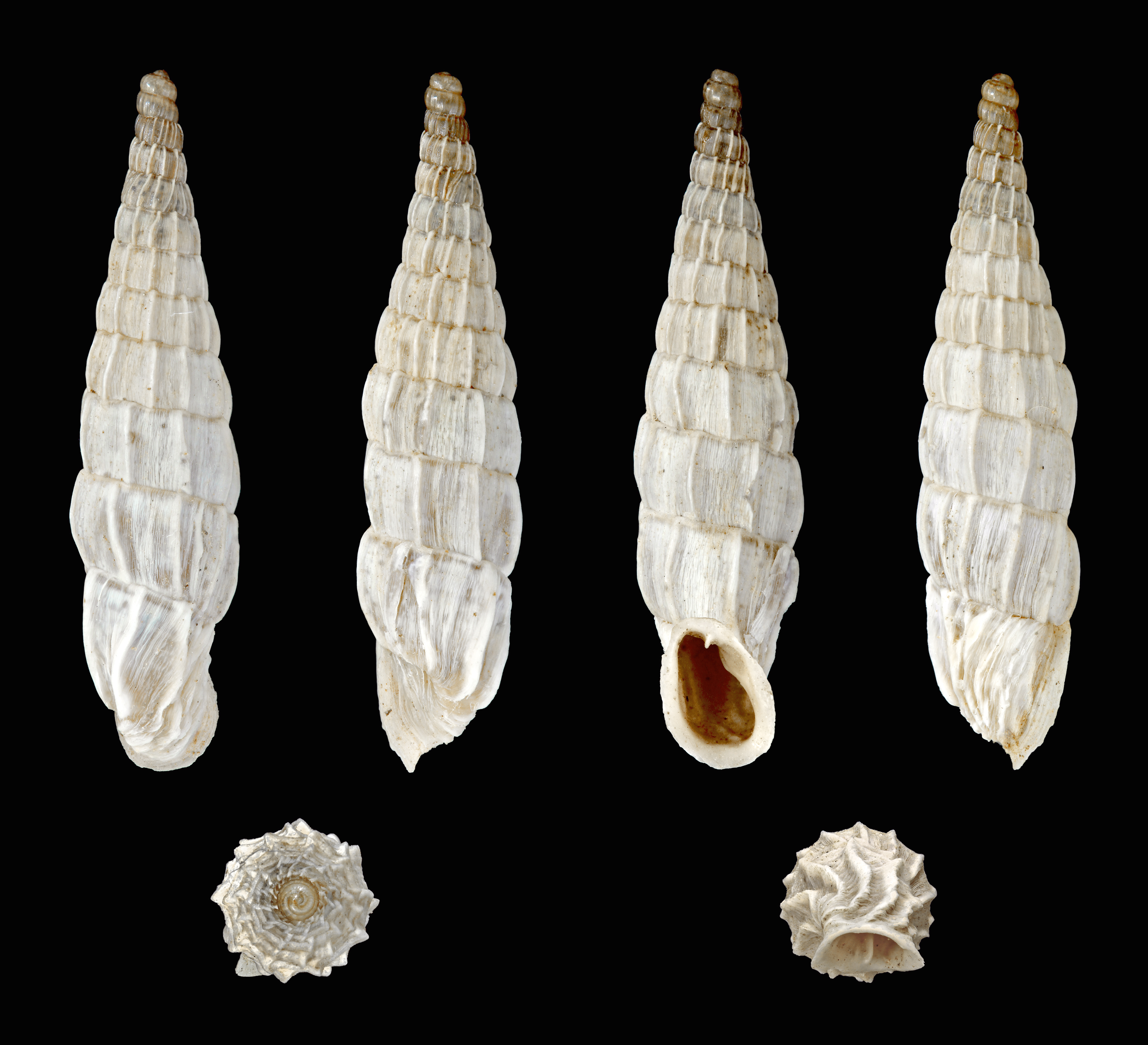 Albinaria praeclara praeclara (Pfeiffer, 1853); Length 1.9 mm; Originating from a wall along the church Panagia Kera, Kritsia, Crete, Greece; Shell of own collection, therefore not geocoded. Dorsal, lateral (right side), ventral, lateral (left side), back, and front view.